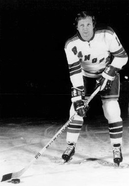 Photo of Bruce MacGregor as a member of the New York Rangers.